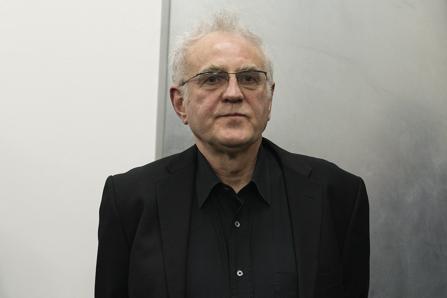 German photographer Knut Wolfgang Maron